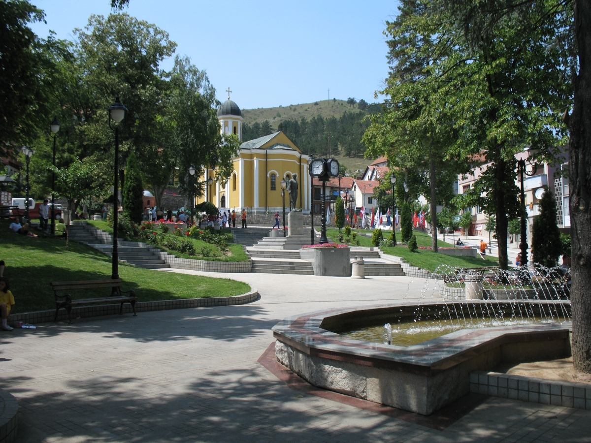 Center of Raška (orienteering competion was held in town that day) with church of saint Archangel Gabriel,Serbia.